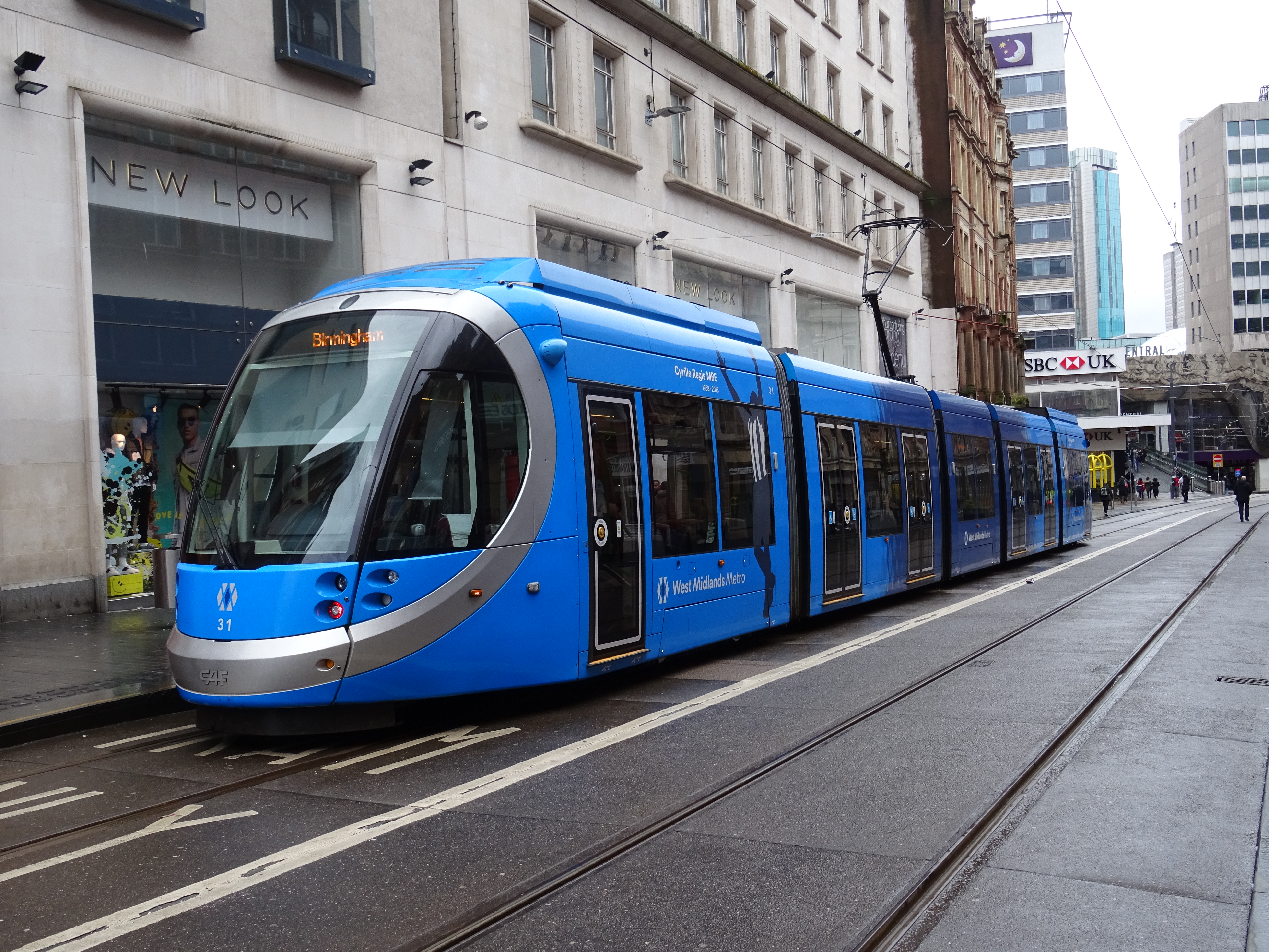 Midlands Metro tram 31 in blue West Midlands Metro livery